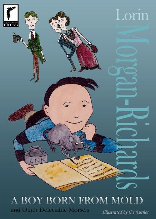 Cover of paperback version of 'A Boy Born from Mold' by Lorin Morgan-Richards, 2014